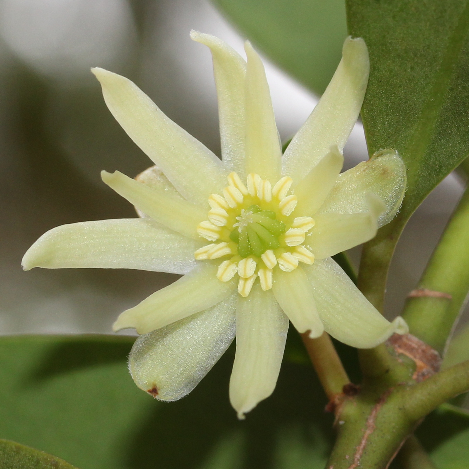 Illicium anisatum in Mount Gozaisho, Suzuka Mountaiins, Komono, Mie Prefecture, Japan.